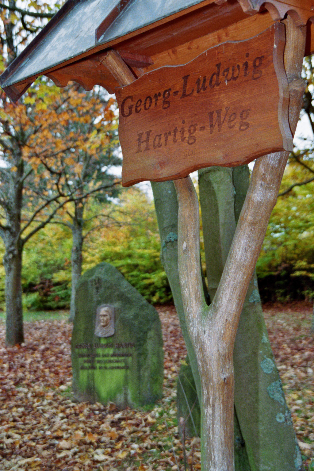 Georg Ludwig Hartig Way in the Georg-Ludwig-Hartig-Park in Gladenbach